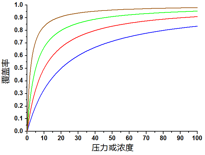 Langmuir isotherm